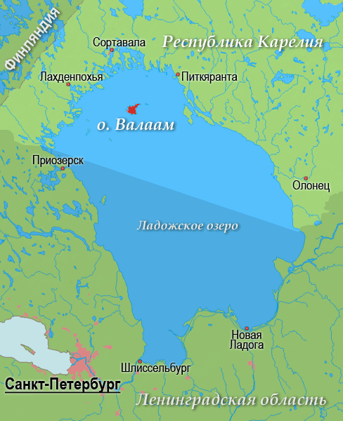 Valaam